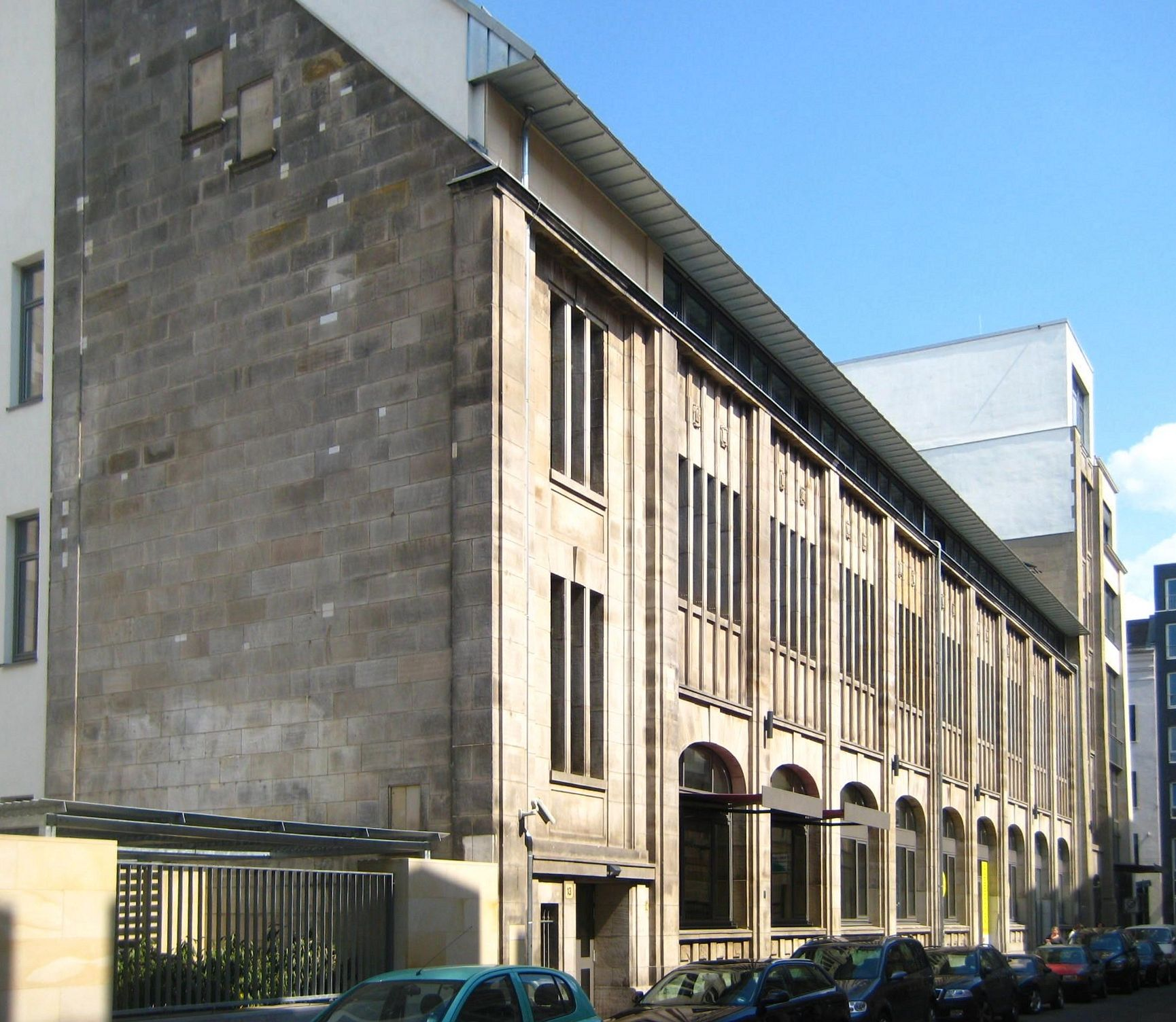 The former Warenhaus Wertheim (Warehouse Wertheim) at Rosenthaler Straße No. 28-31, here the side facade on Sophienstraße, which, as opposed to the main facade, has largely been preserved in its original outlook. The building was constructed in 1903 to a design by Alfred Messel (in cooperation with Walter Schirbach). It is the only remaining example of the architecturally significant structures Messel built for Wertheim in Berlin. The building has been designated as a historic landmark.